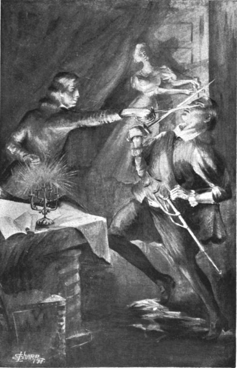 Illustration of Marlowe killing Frazer from the novel It Was Marlowe